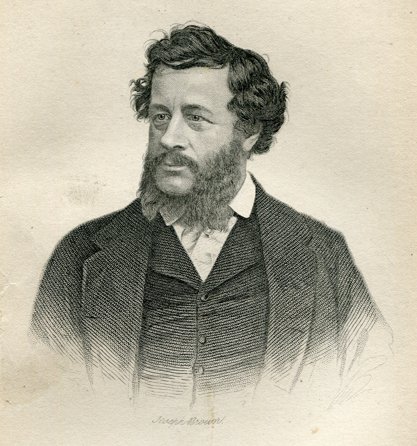 Portrait of Charles Elme Francatelli